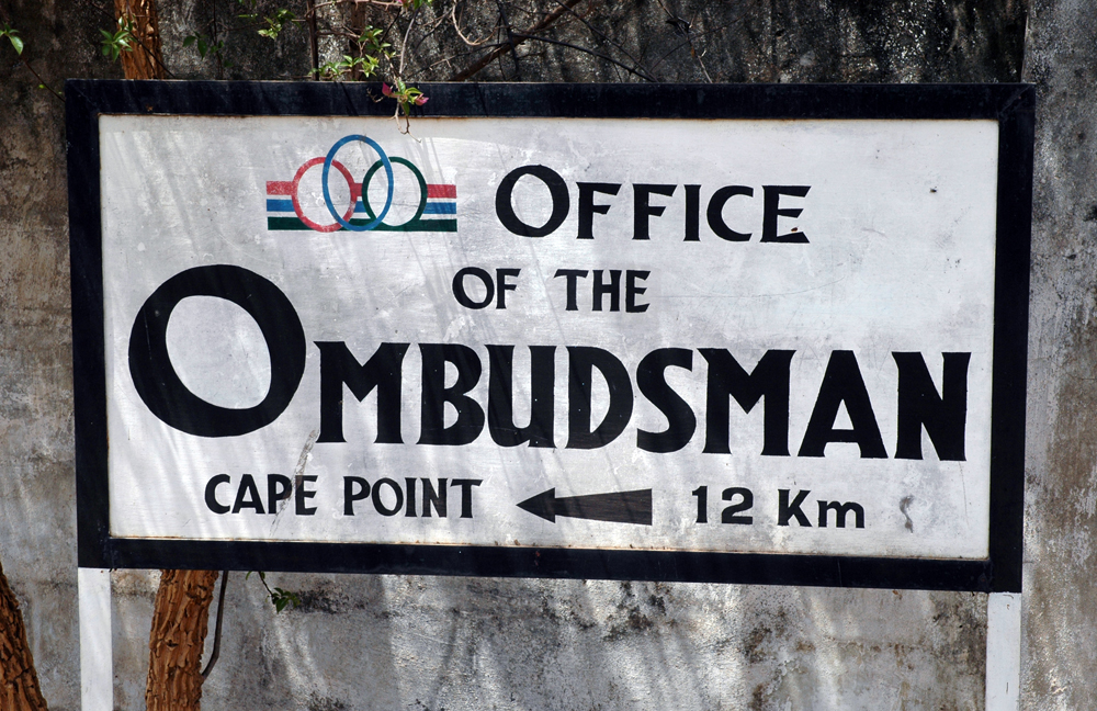 Information sign in Banjul, The Gambia